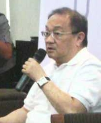 Manuel Pangilinan has an informal chat with online journalists and bloggers about the Ideaspace venture capital fund for Filipino entrepreneurs